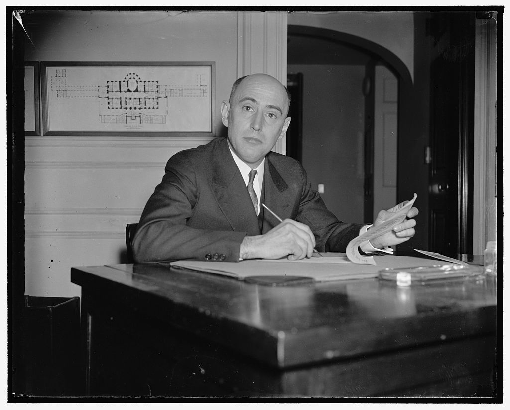 New Chief Usher at White House. Washington, D.C., April 5. Howell G. Crim has just been named by President Roosevelt to the chief usher at the White House, succeeding Raymond Muir who has been appointed Assistant to the Chief of the International Conference Division of the State Department. Crim has been First Assistant to Muir since 1933, 4/5/38